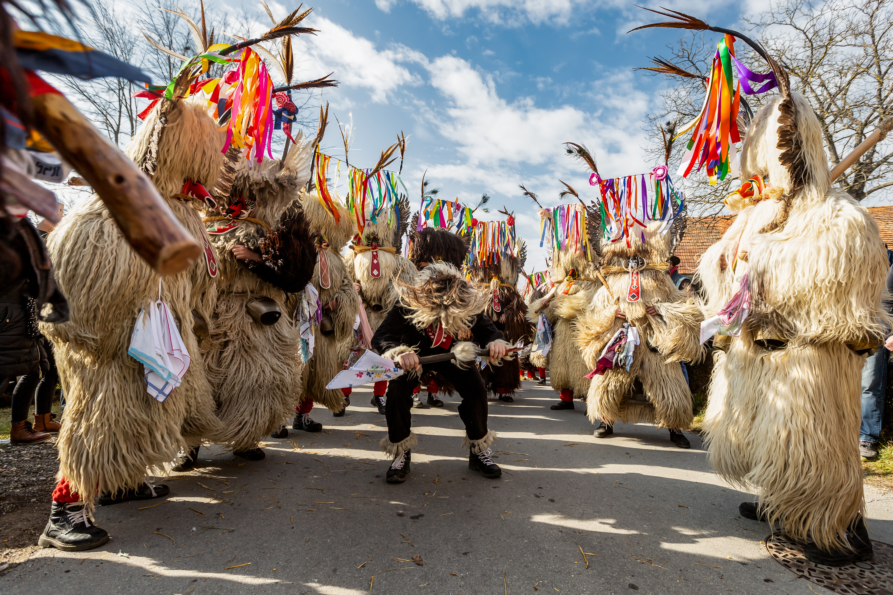 Slovenia - Ptuj - Kurentovanje: celebration of coming spring - "Kurent"s urging winter to leave